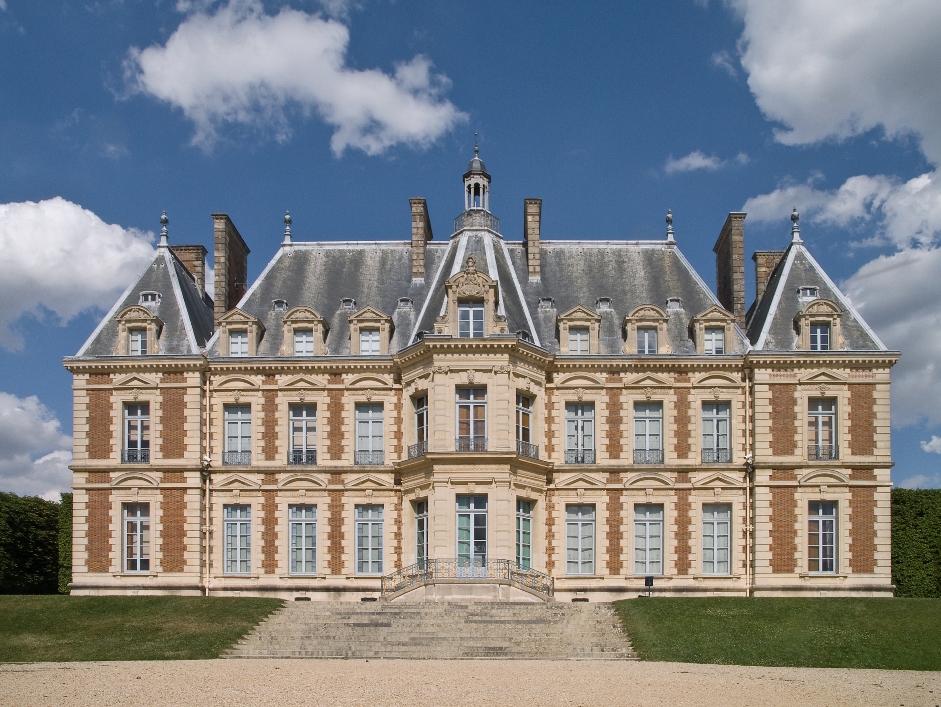 Park of Sceaux - The castle, rebuilt in the 19th century, is now the museum of Île-de-France (Hauts-de-Seine, France).